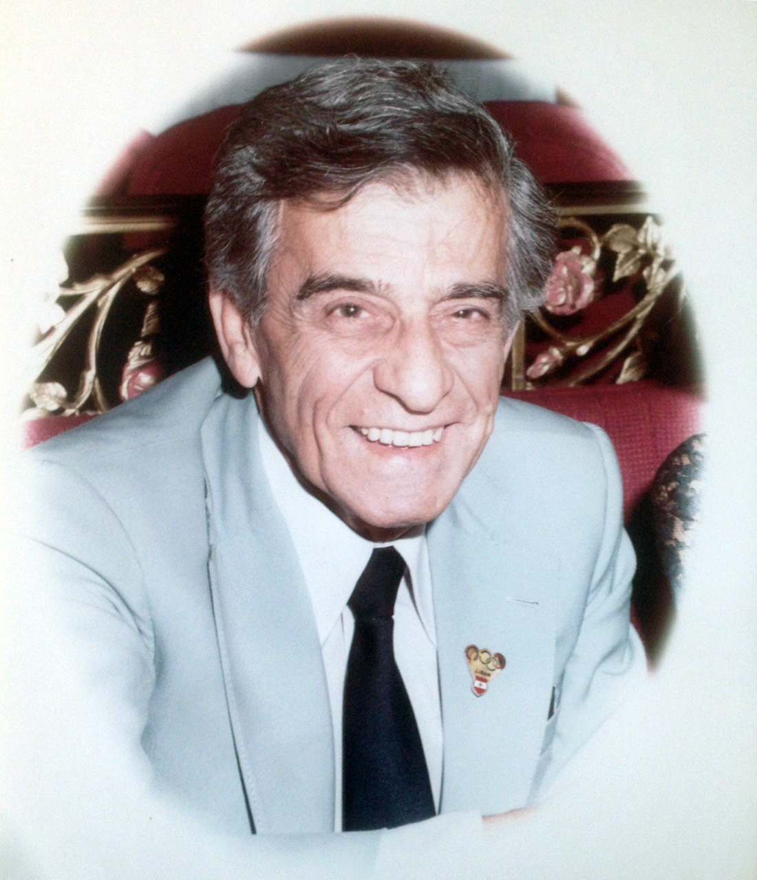 Portrait of Nassif Majdalani